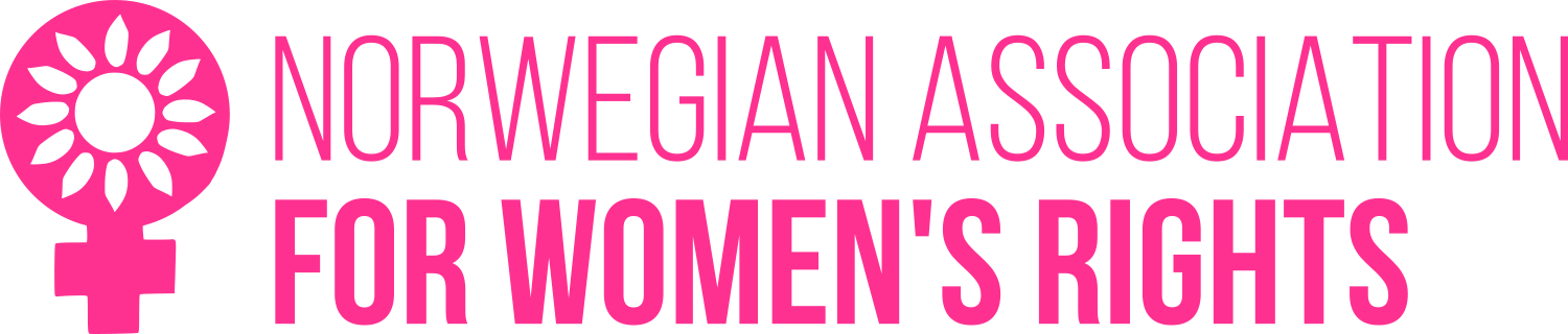 Logo of the Norwegian Association for Women's Rights – English version.